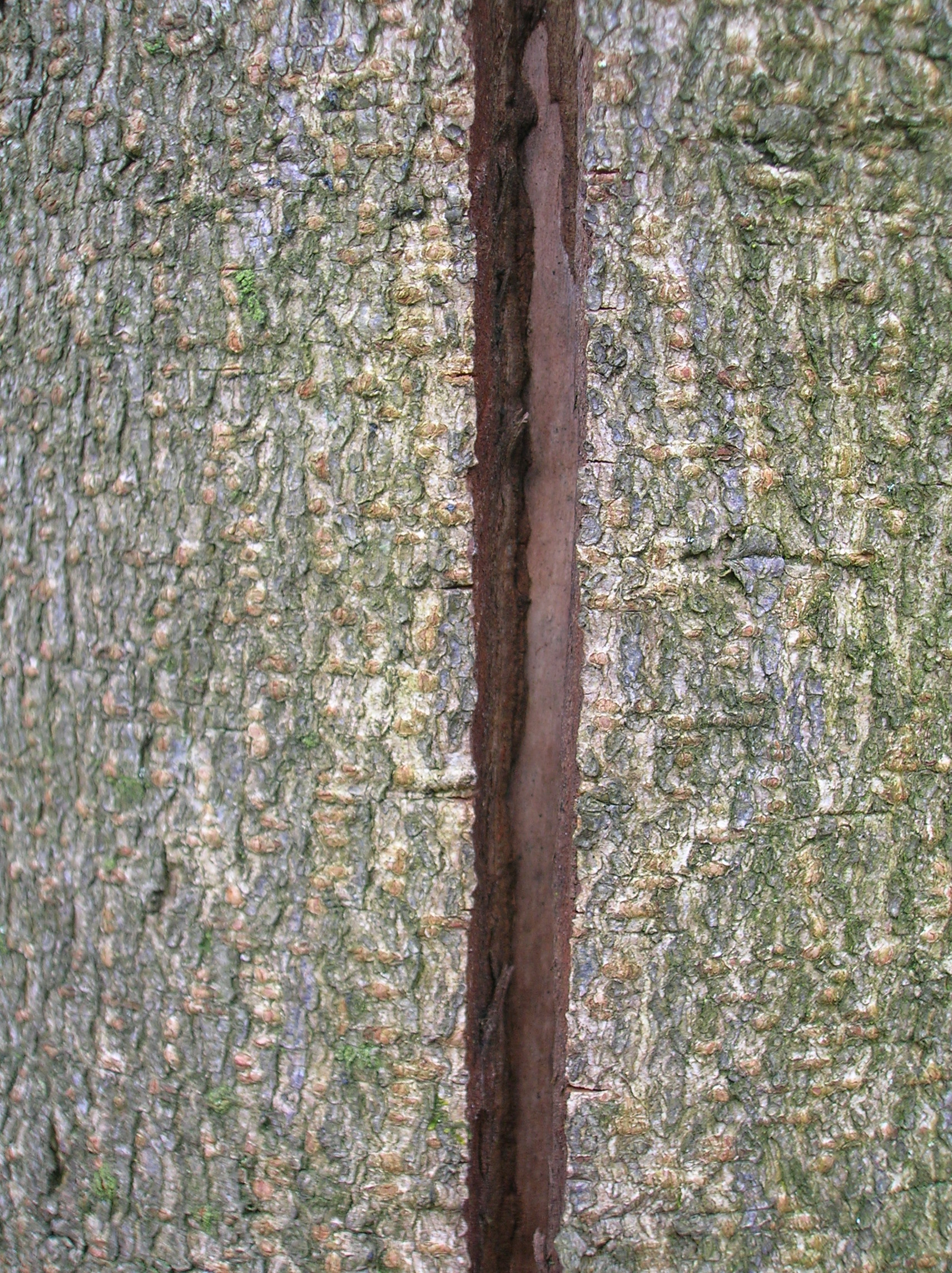 Frost Crack in the bark of a Horse Chestnut at Spier's Old School Grounds, Beith, North Ayrshire, Scotland.